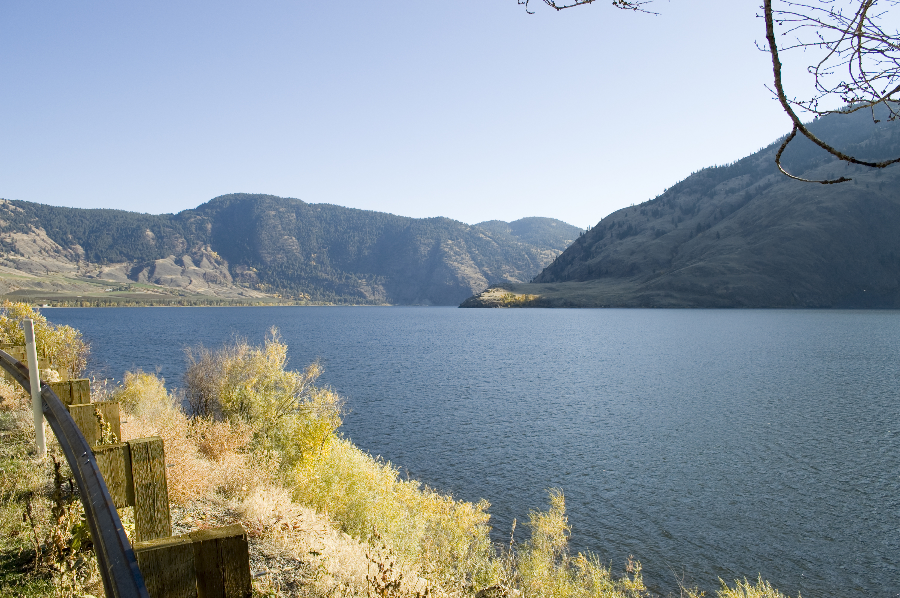 A photograph of Palmer Lake in Okanogan County, Washington.